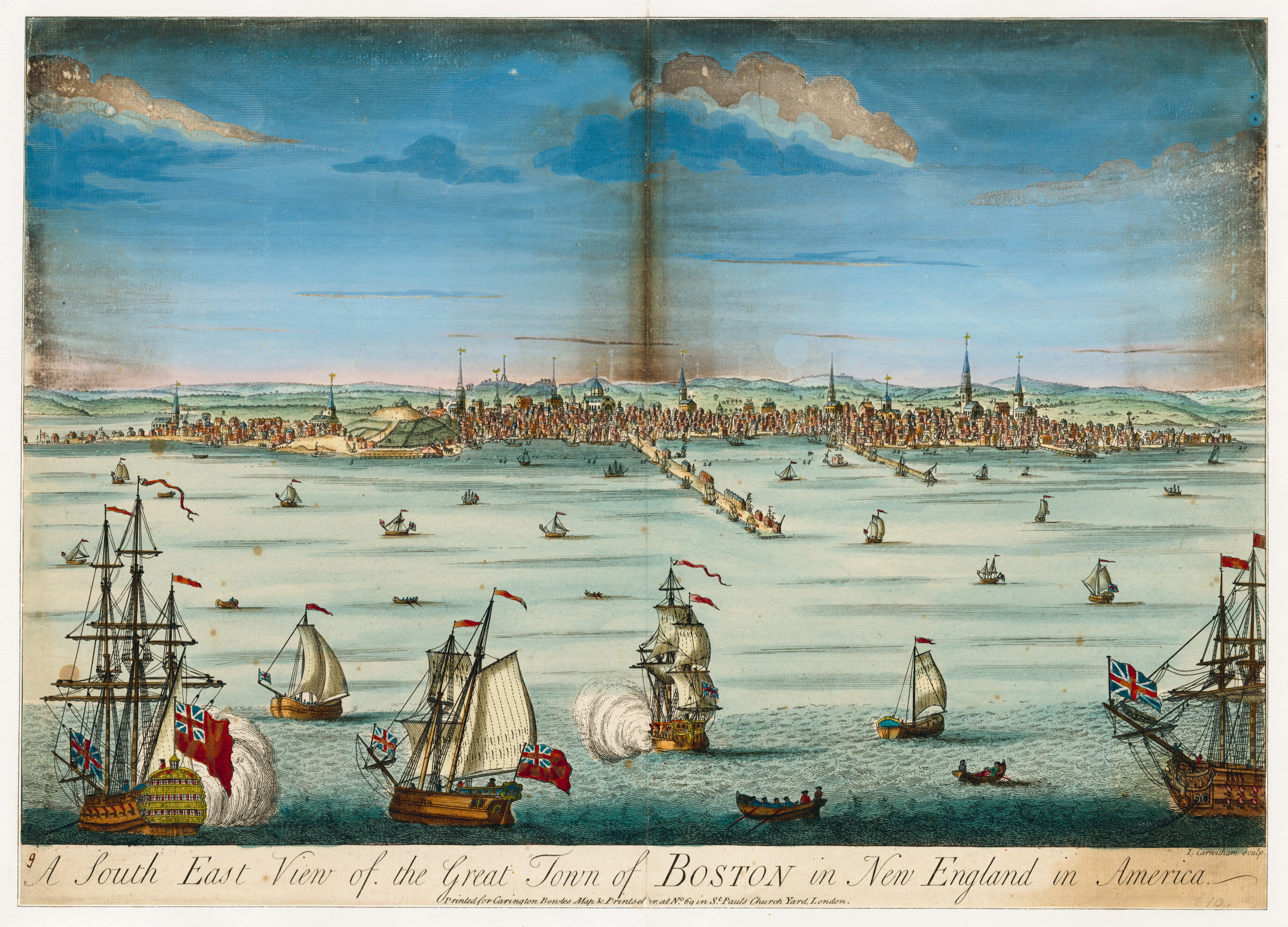 EM2079